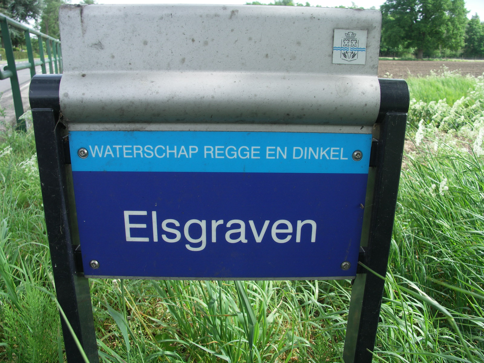 The sign "Elsgraven" from the "Witmoesdijk", Overijssel.